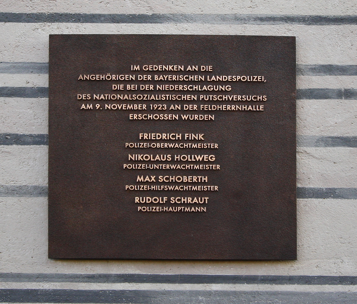 The new commemorative plaque unveiled 09/11/2010 in the Munich Residence. In memory of the 4 police officers killed in the exchange of fire during Hitler's Beer Hall Putsch on November 9, 1923; in front of the General's Hall.